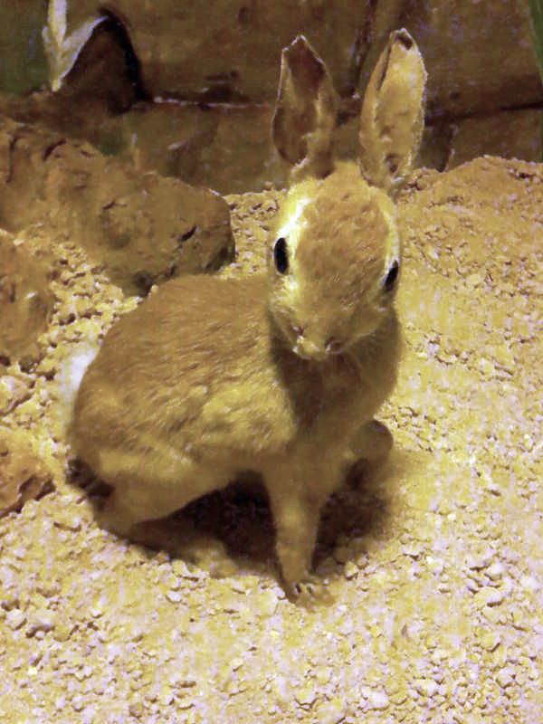 Young taxidermied European rabbit or common rabbit (Oryctolagus cuniculus) at the National Museum of Natural History, Vilhena Palace, Republic of Malta.